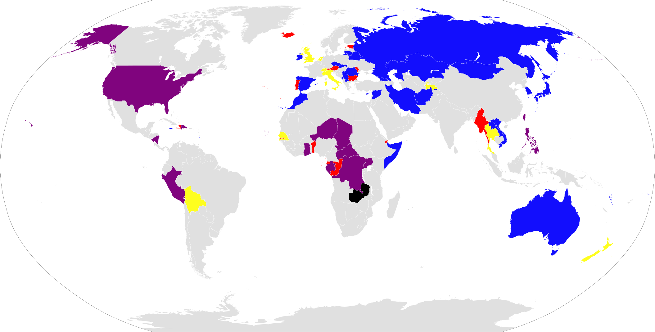 Countries where elections for the head of state or national legislature, or referendums, are being held in 2016. ■ – Presidential (or head of state) ■ – Presidential and parliamentary/legislative ■ – Parliamentary/legislative ■ – Referendum and parliamentary/legislative ■ – Referendum ■ – Referendum and presidential ■ – Referendum, presidential and parliamentary/legislative ■ – None